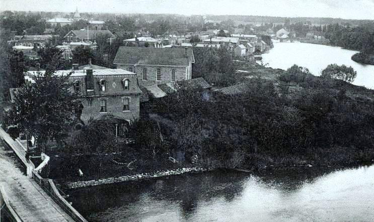 Print (photomechanical), View from the river, Huntingdon, QC, about 1910, Ink on paper - Collotype - 8.8 x 13.8 cm